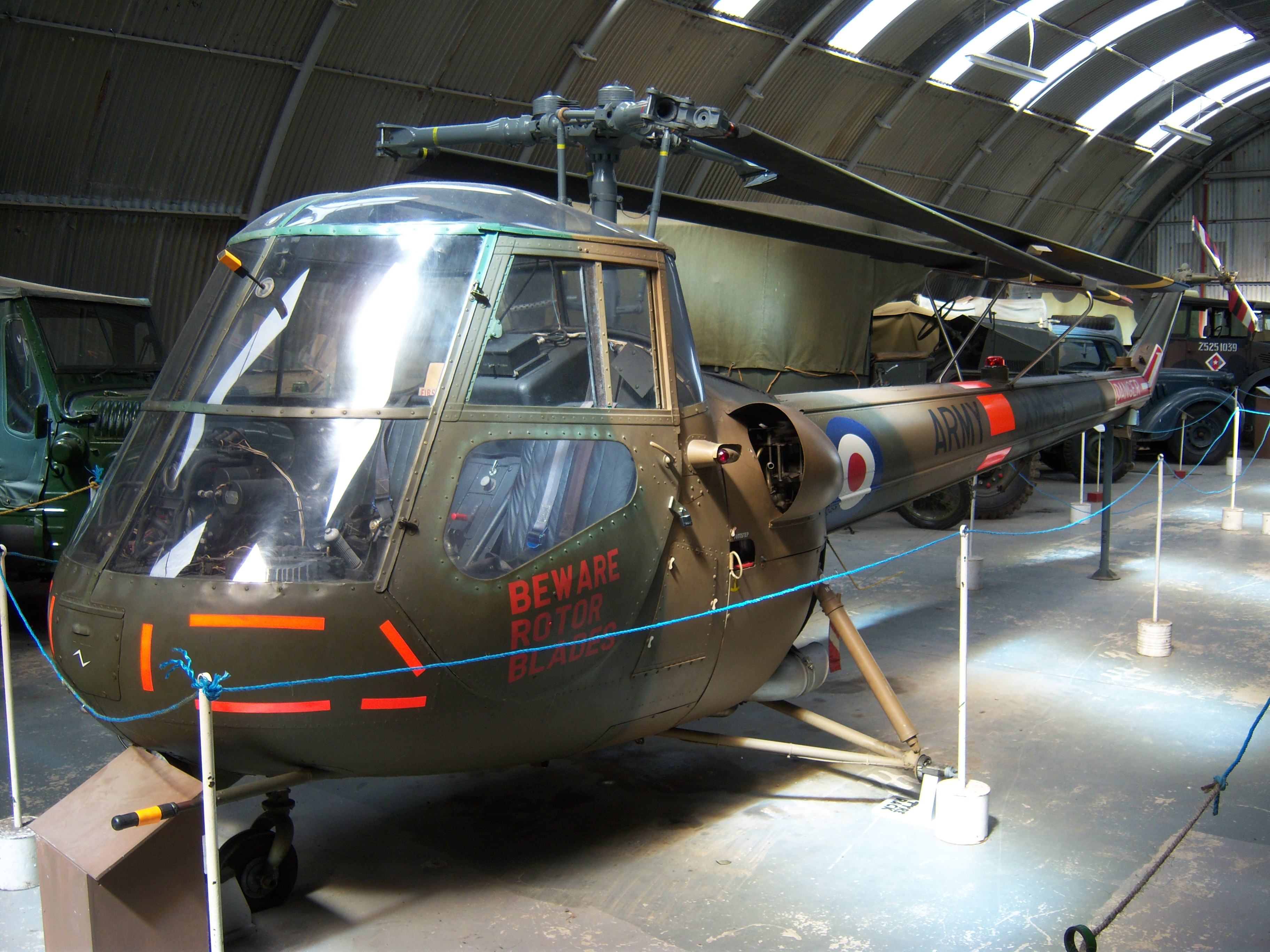 Seen at the NELSAM site in Sunderland.